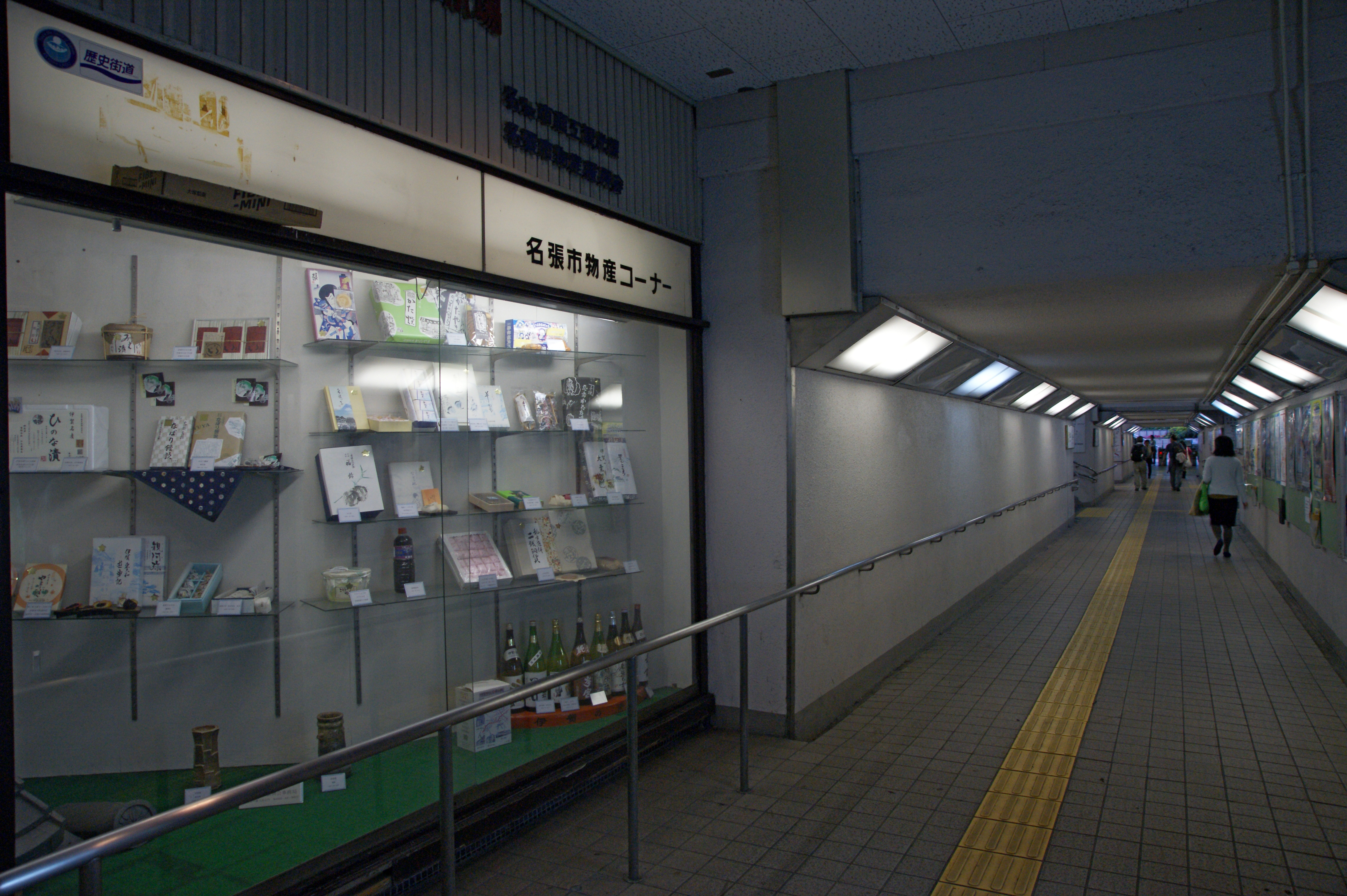 Nabari Station, Nabari, Mie prefecture, Japan